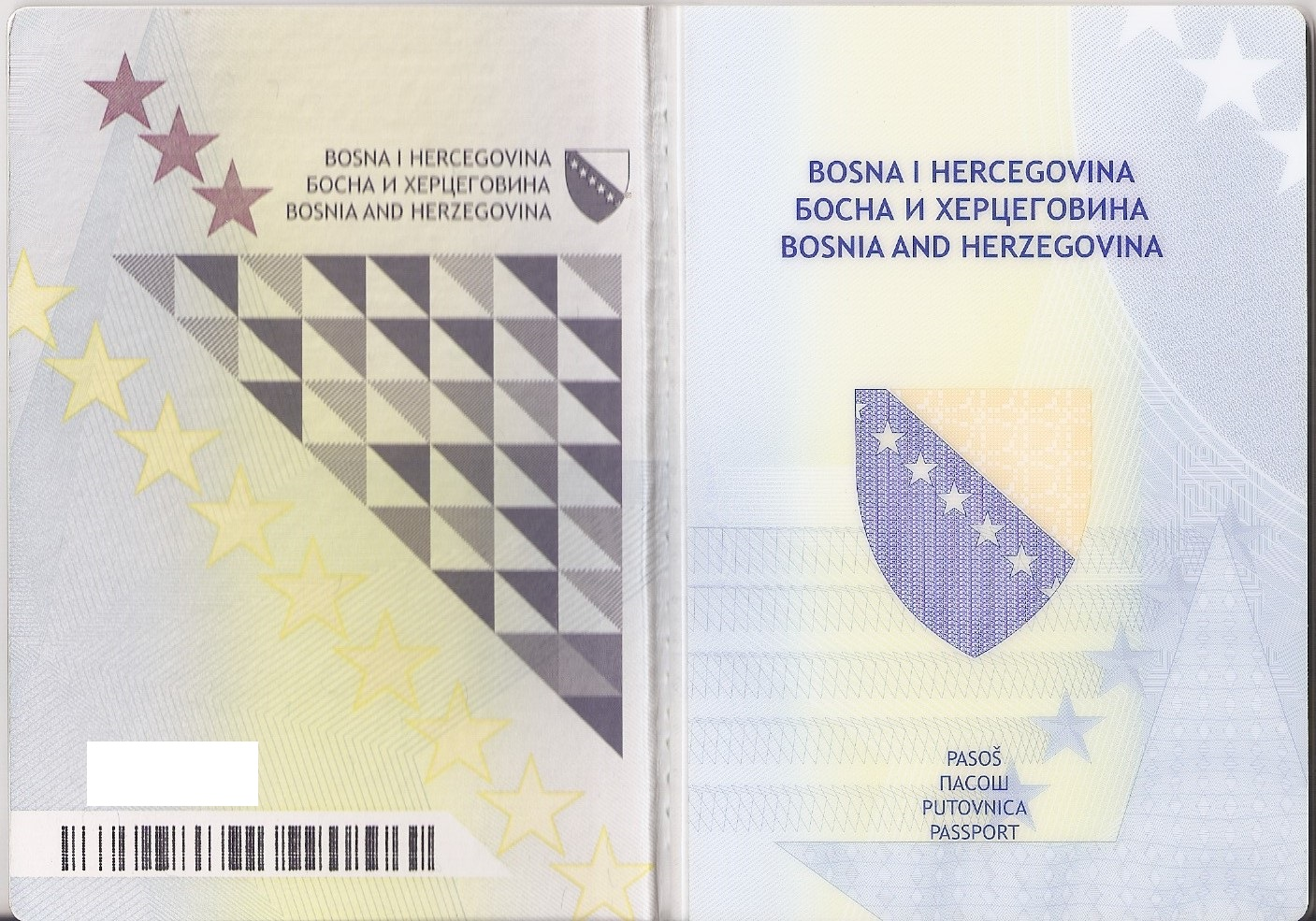 First page of Bosnian Bio-metric Passport Version October 2014